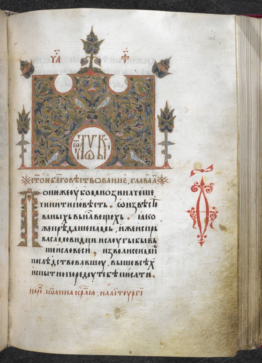 Jacob_if_Serres_Four_Gospels_Luke_Headpiece